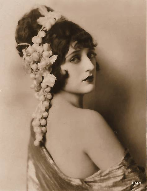 Carmel Myers with Decorative Grape Headdress.